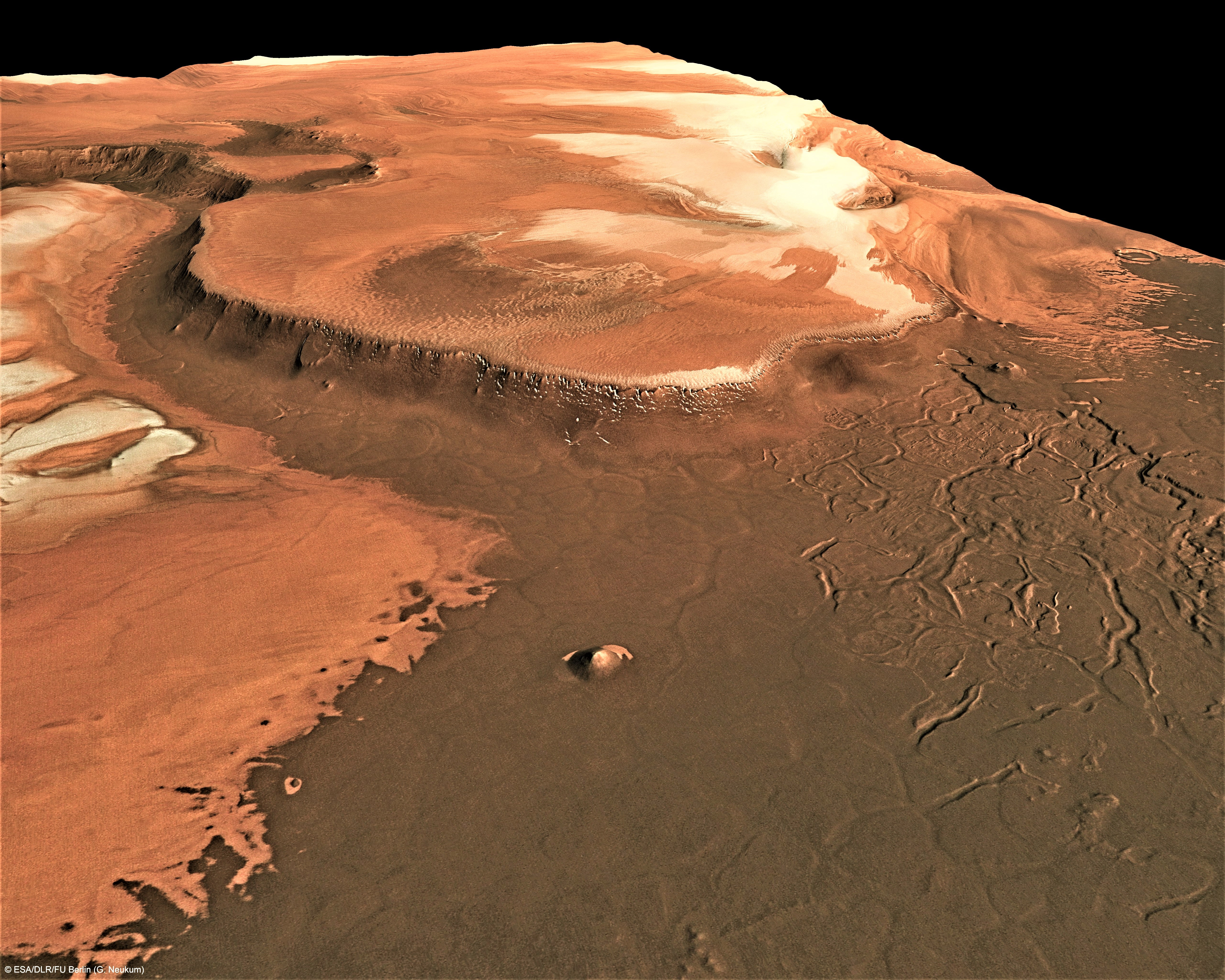 ESA’s Mars Express orbiter imaged the snow-laden region of Rupes Tenuis on the martian north pole on 29 July 2008. Rupes Tenuis is located at the southern edge of the martian north polar cap, approximately 5500 km northeast of the Tharsis volcanic region. The images are at about 81° north and 297° east and have a ground resolution of approximately 41 m/pixel. They cover an area of about 44 000 km2, almost as large as the Netherlands.